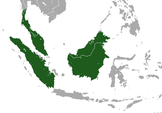 Greater Moonrat (Echinosorex gymnura) range